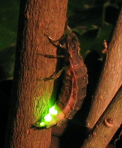 Lampyris noctiluca, female, own picture, June 2005, Germany